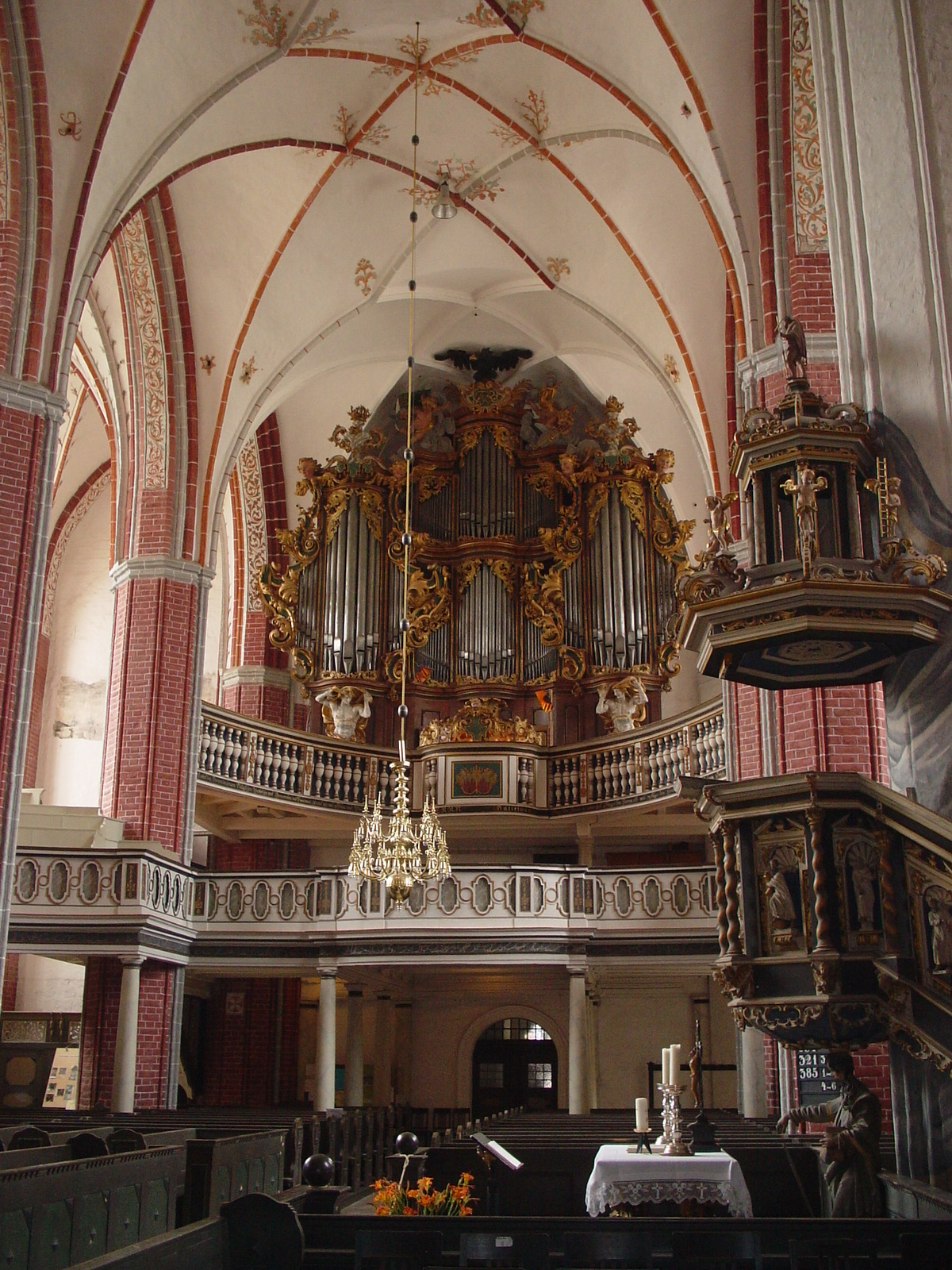 Interior of the Katharinenkirche in Brandenburg an der Havel (Germany)